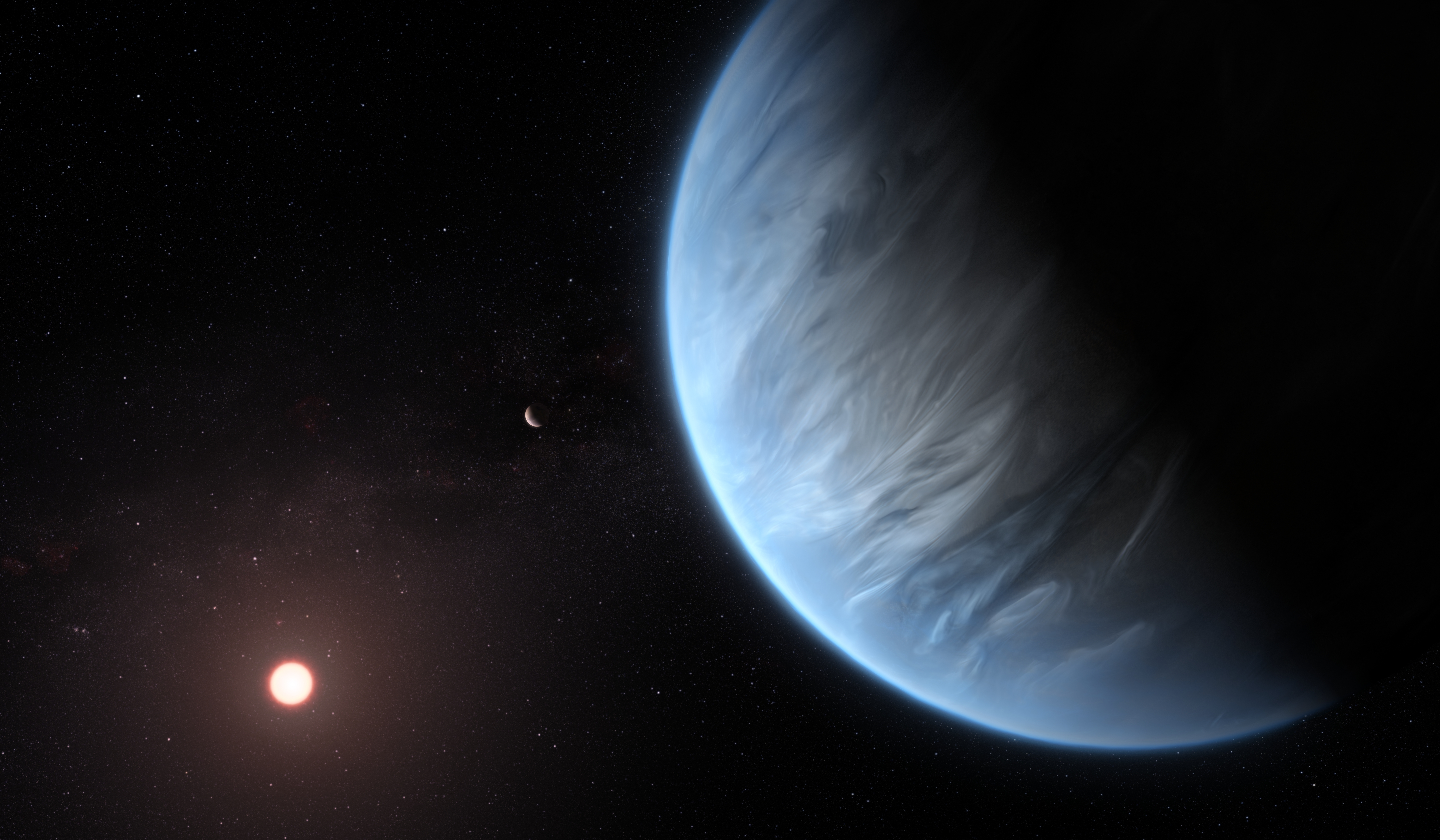 This artist's impression shows the planet K2-18b, its host star and an accompanying planet in this system. K2-18b is now the only super-Earth exoplanet known to host both water and temperatures that could support life. UCL researchers used archive data from 2016 and 2017 captured by the NASA/ESA Hubble Space Telescope and developed open-source algorithms to analyse the starlight filtered through K2-18b's atmosphere. The results revealed the molecular signature of water vapour, also indicating the presence of hydrogen and helium in the planet's atmosphere.